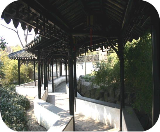 zigzag walk in Lingering Garden